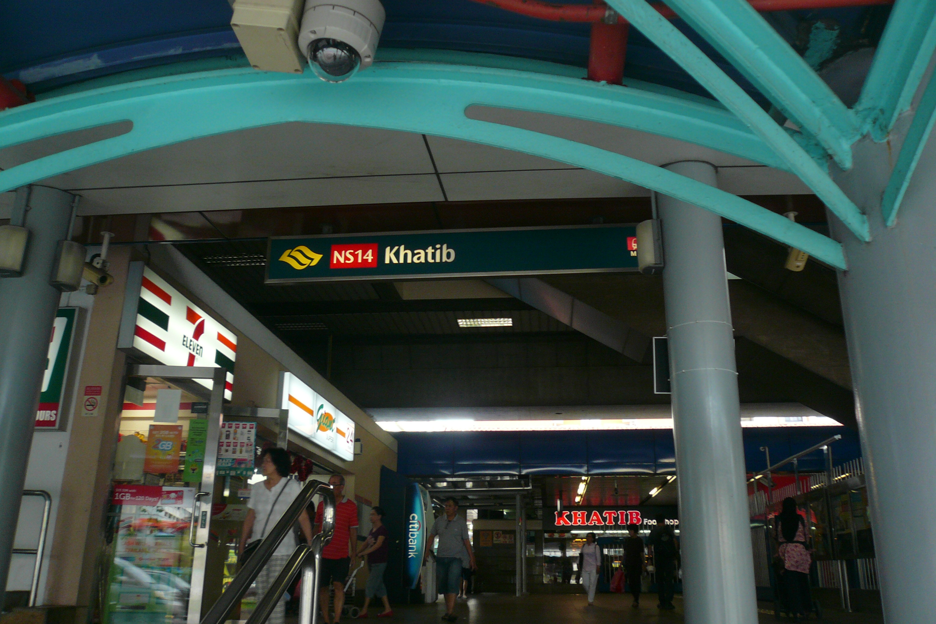 Khatib MRT Exit A